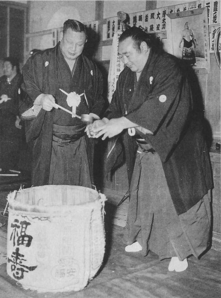 Ōzeki Kagamisato Kiyoji (1953 Hatsu Basho Tournament Championship) and Tokitsukaze (Left) . Kagamisato was promoted to Yokozuna after this.